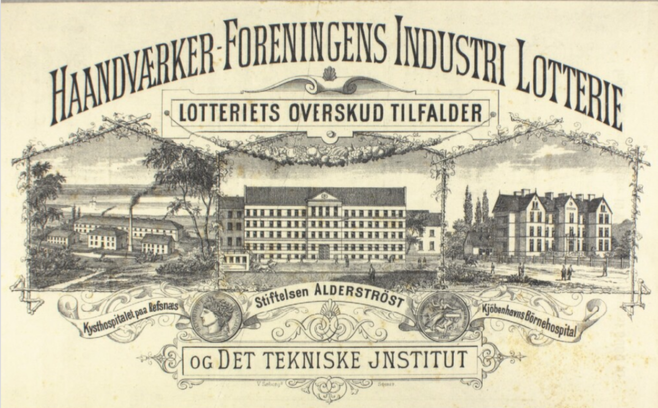 Lottery ticket from Håndværkerforeningen supporting Stiftelsen Alderströst and Teknisk Institut